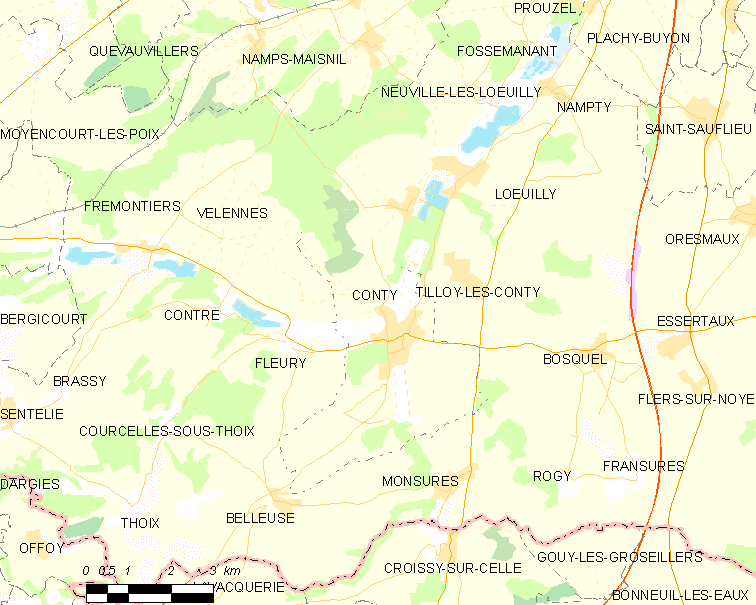 Map of French municipality Conty